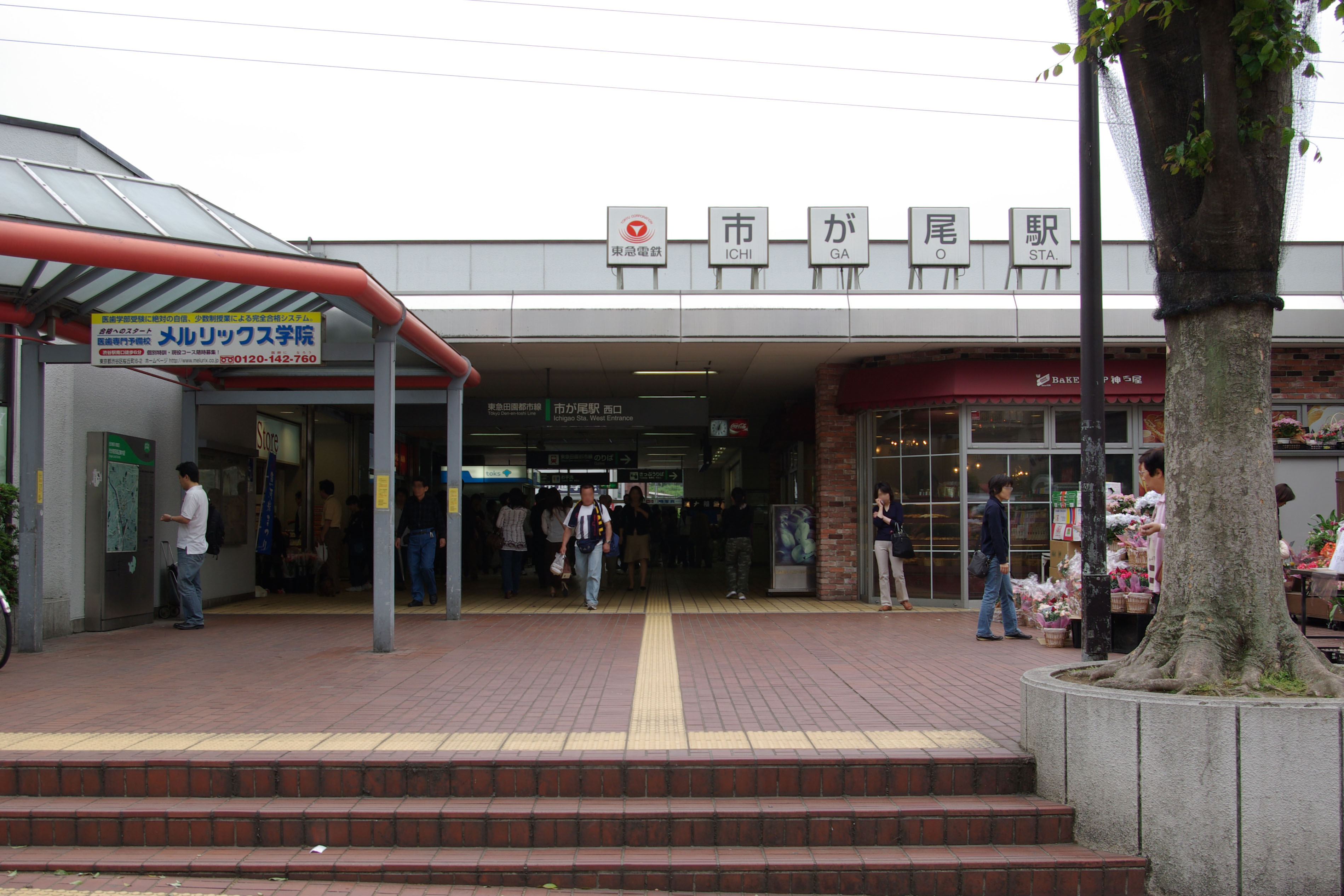 The west entrance to Ichigao Station on the Tokyu Den-en-toshi Line